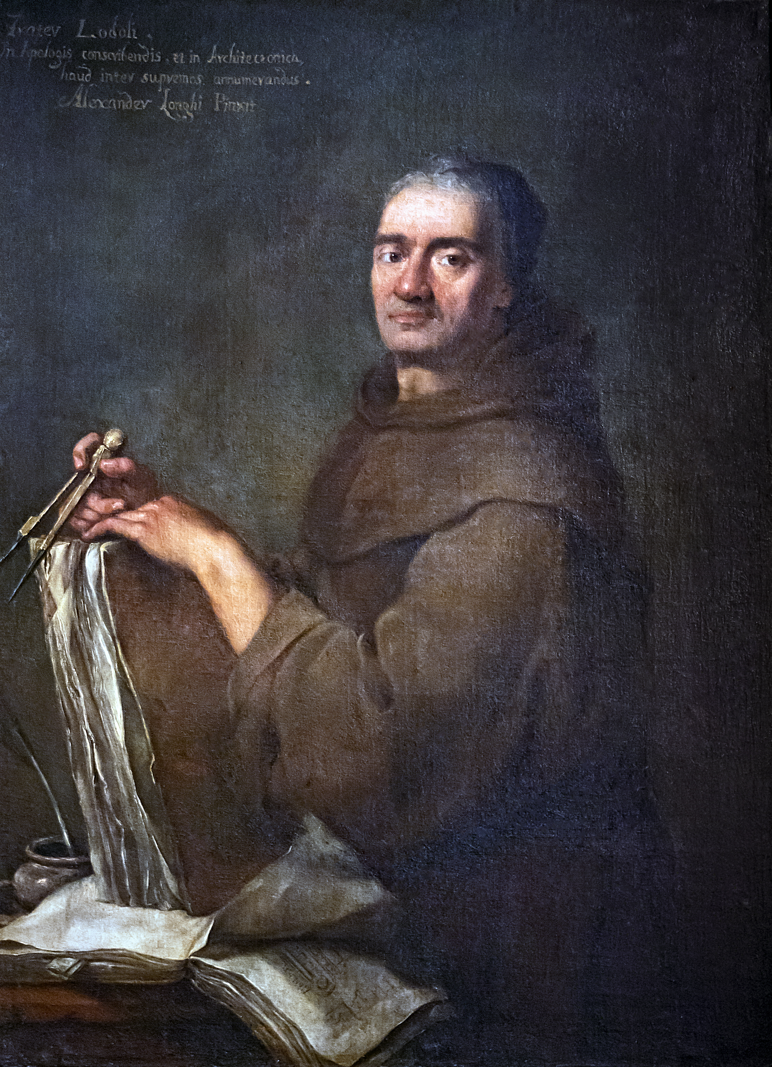 Portrait of the architectural theorist Carlo Lodoli by Alessandro Longhi 1761, Gallerie dell'Accademia in Venice. Writing : Frater Lodoli/ in apologis conscribendes, et in Arcchitectonica/ Haud inter supremos annumerandus/Alexander Longhi Pinxit. Oil on canvas, size: 201 × 96 cm. Inventory number: Cat.908.